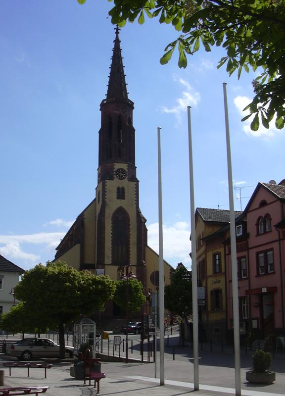 Market square and church of Waibstadt, Germany